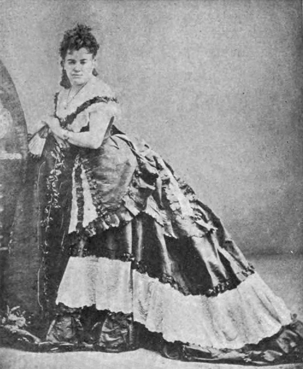 Inez Fabbri (26 January 1831 – 30 August 1909), née Agnes Schmidt, soprano